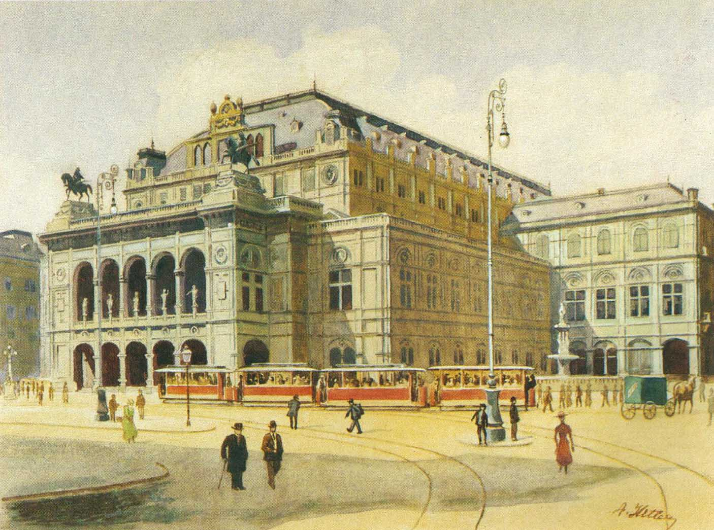 Vienna State Opera House